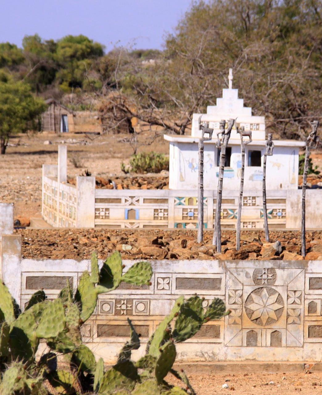 Painted and carved Mahafaly tomb with aloalo in Southern Madagascar